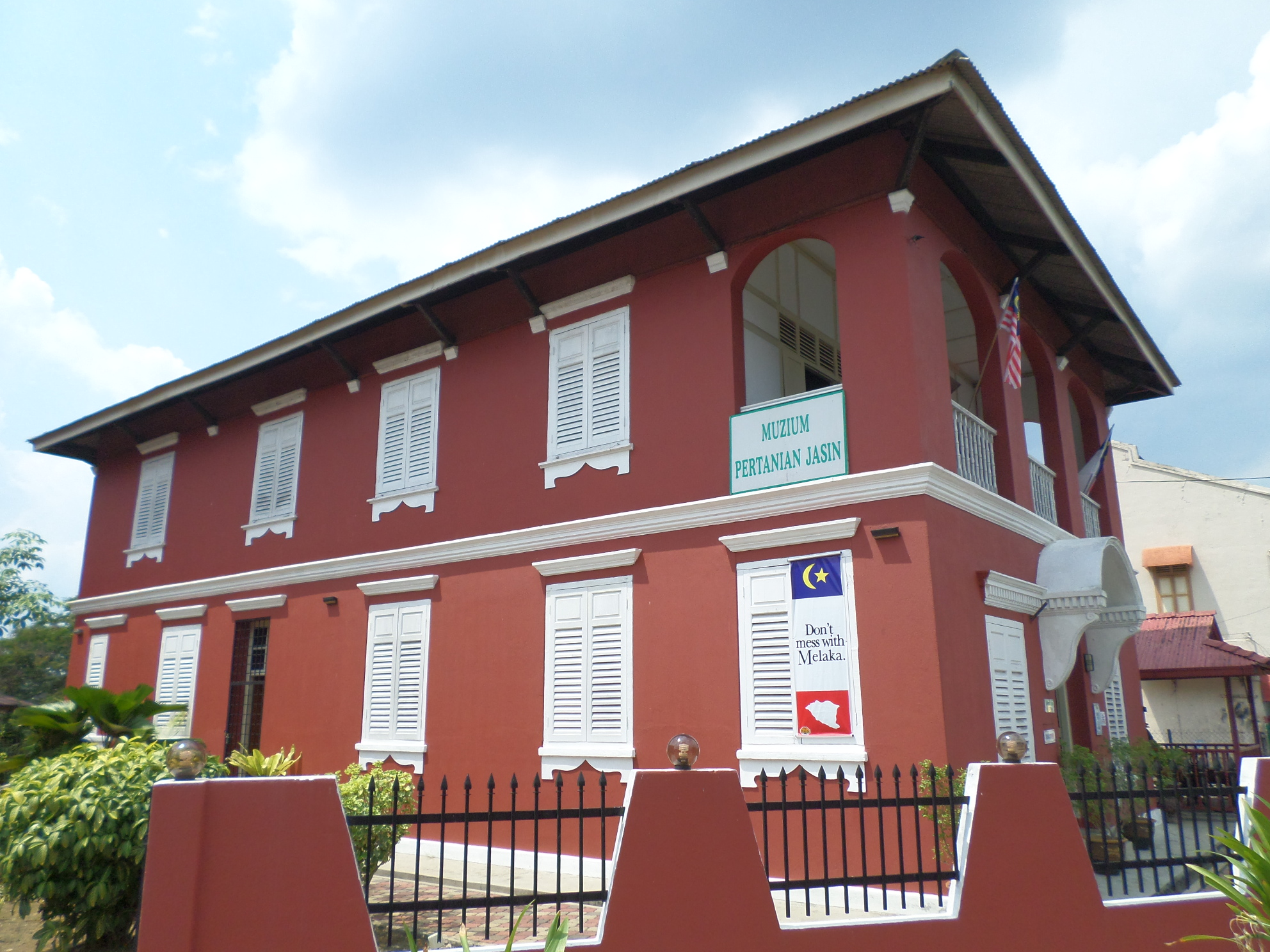 Agricultural Museum, Jasin, Melaka, MalaysiaBahasa Melayu: Muzium Pertanian, Jasin, Melaka, Malaysia